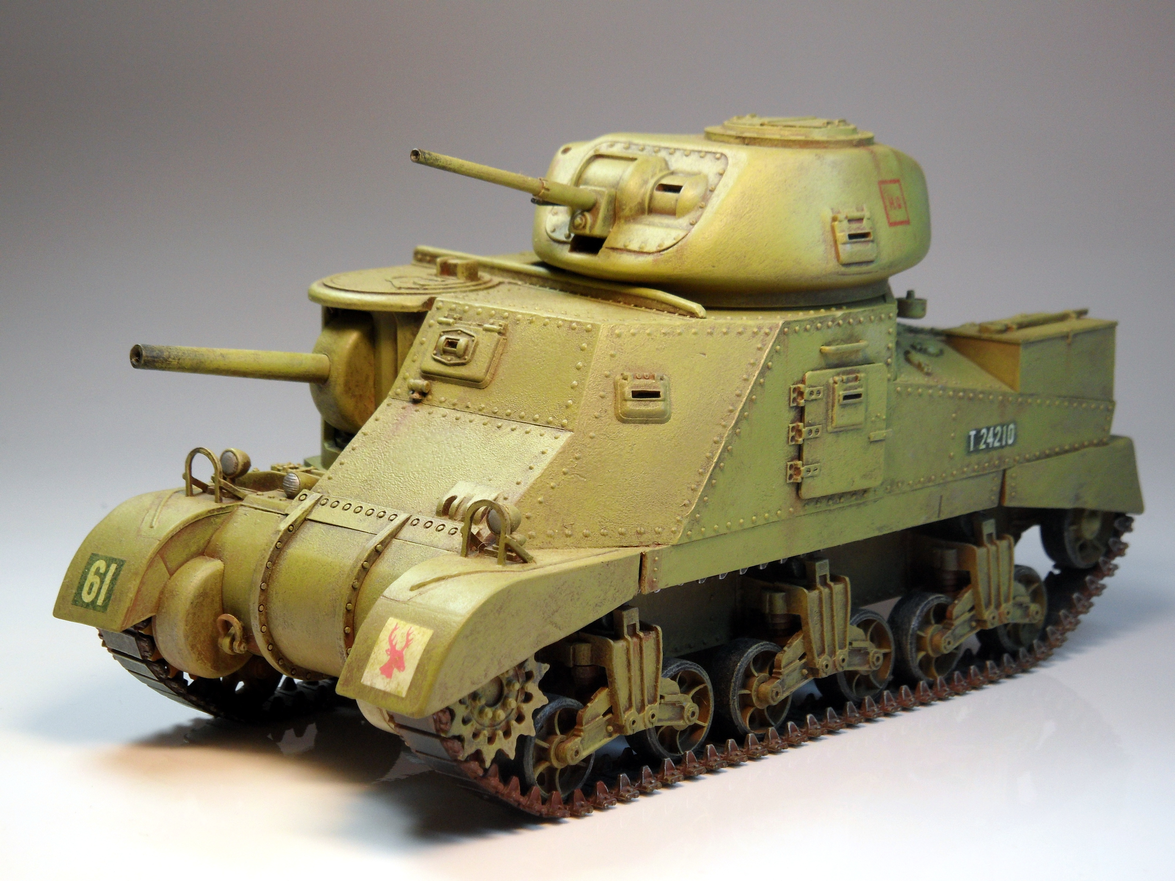 More pictures of My Toy Museum at Flickr. Most of those toys do still have copyrights so i can't publish them here! 1/35 British M3 Grant Mk I - Built in 1986